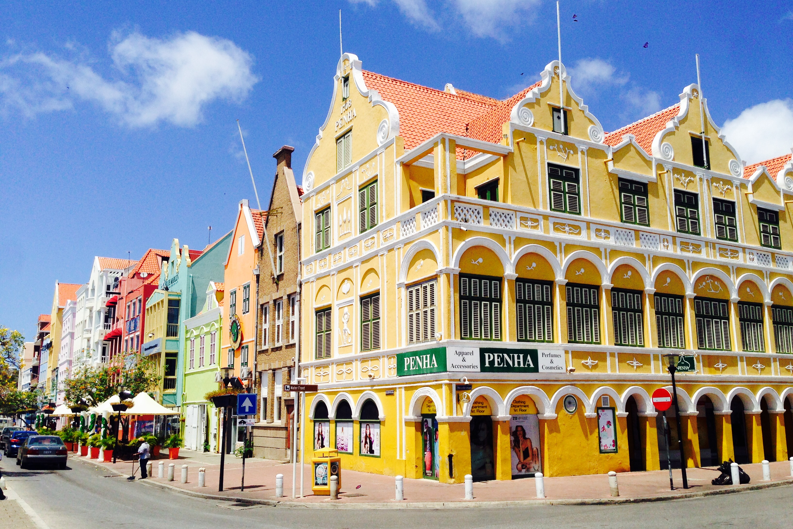 The Penha building built in 1708